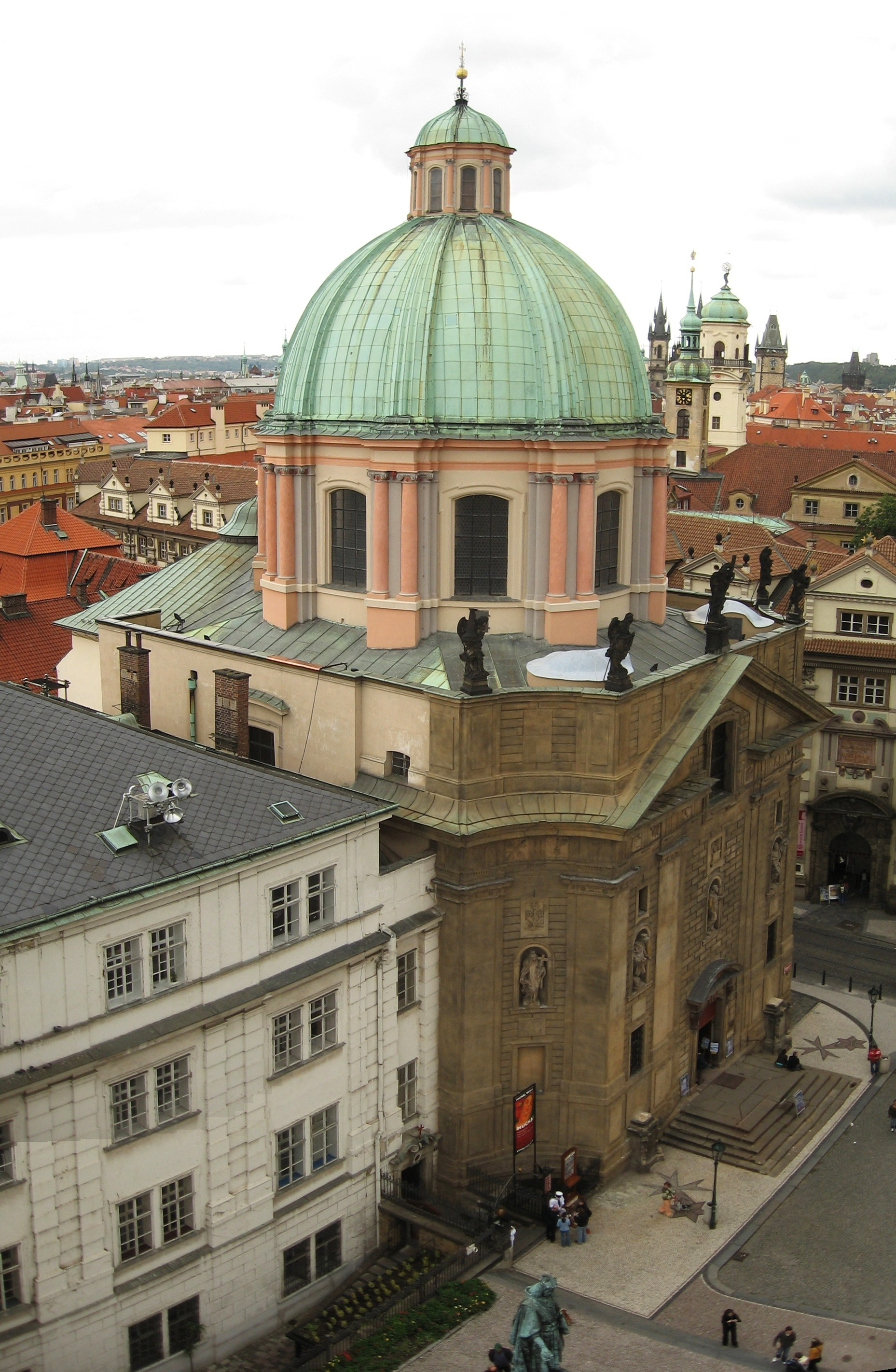 Church of Saint Francis of Assisi by the Charles Bridge. From Old Town Tower of Charles Bridge, composed from 2 snaps.